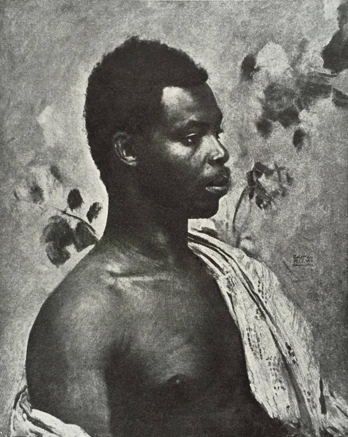 “Portrait of William R. Dowoonah”, by Gustav Klimt, ca. 1897-1900. The painting was seen at an exhibition in Vienna in 1923 and later in 1928, with the title "Head of a black person". It has not been seen since 1928. - Unknown technique, dimensions and whereabouts.